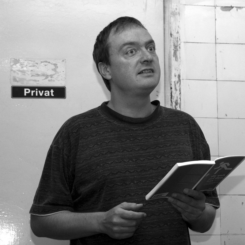 Stan Lafleur, German author and performer of spoken word, at a reading in Cologne, Germany